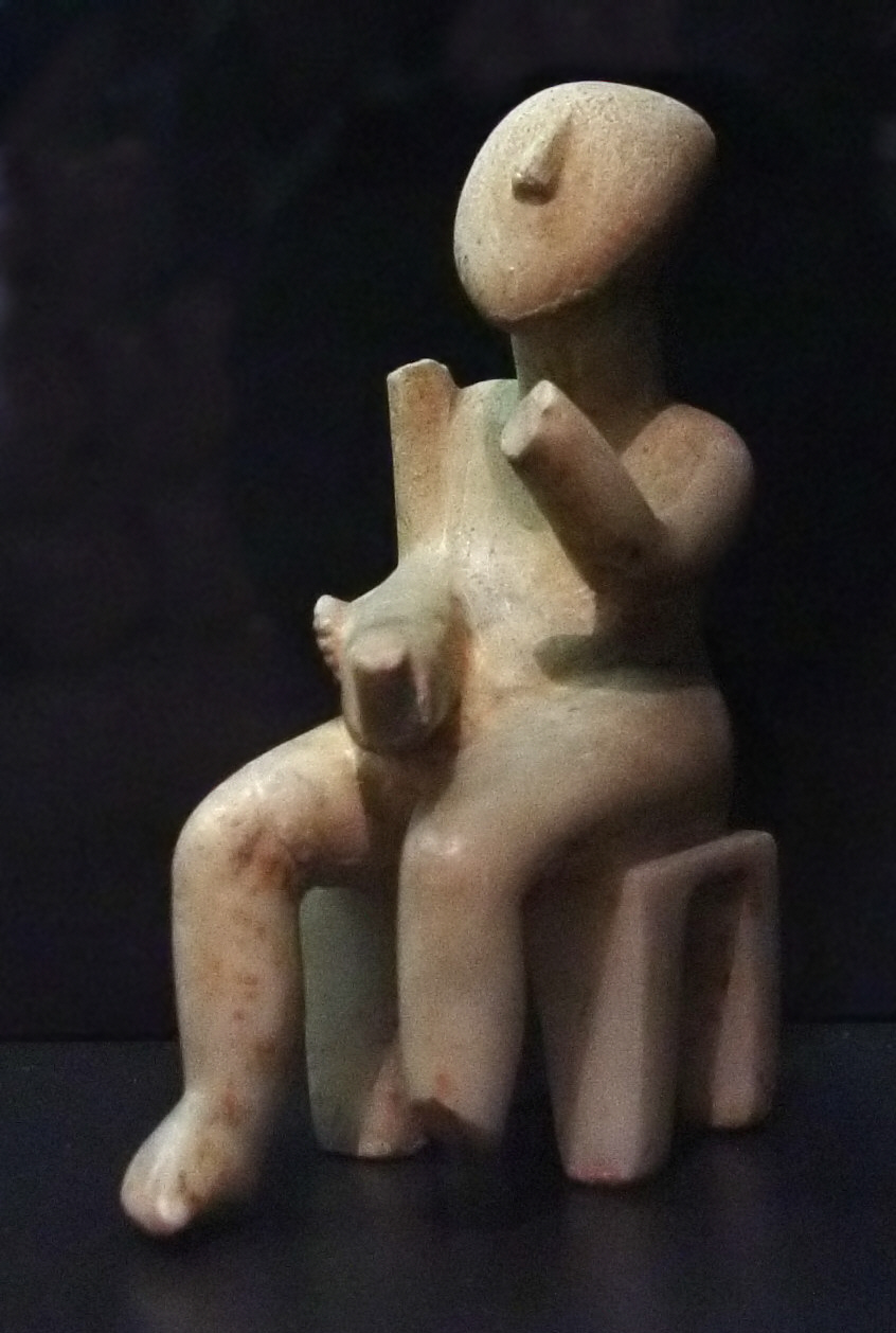 Harp Player, Badisches Landesmuseum, Karlsruhe, Germany, Inventory# B 863, marble, H 15,6 cm, W 5,5 cm, D 13 cm, cycladic figurine, bronze age, from the early cycladic II period, early spedos type, found in early 19. century in a grave on the greek island of Santorini, bought in 1840 by F. Maler in Italy, since 1853 in the collection of the Badisches Landesmuseum.